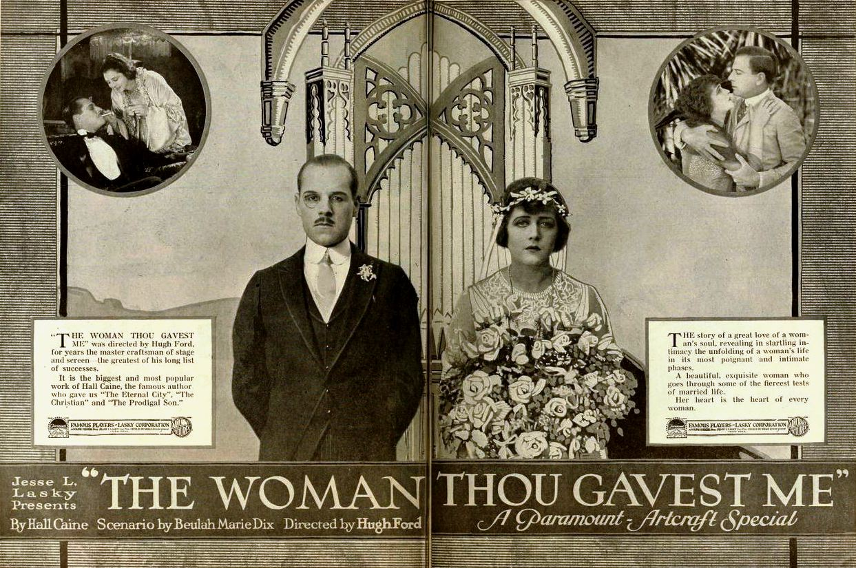 Ad for the American film The Woman Thou Gavest Me (1919) with Katherine MacDonald, Jack Holt, Milton Sills, and Fritzi Brunette, on pages 456 and 457 of the April 26, 1919 Moving Picture World.